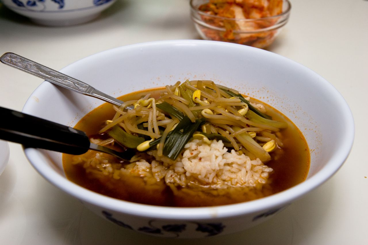 Kongnamul guk (bean sprout soup) in Korean cuisine